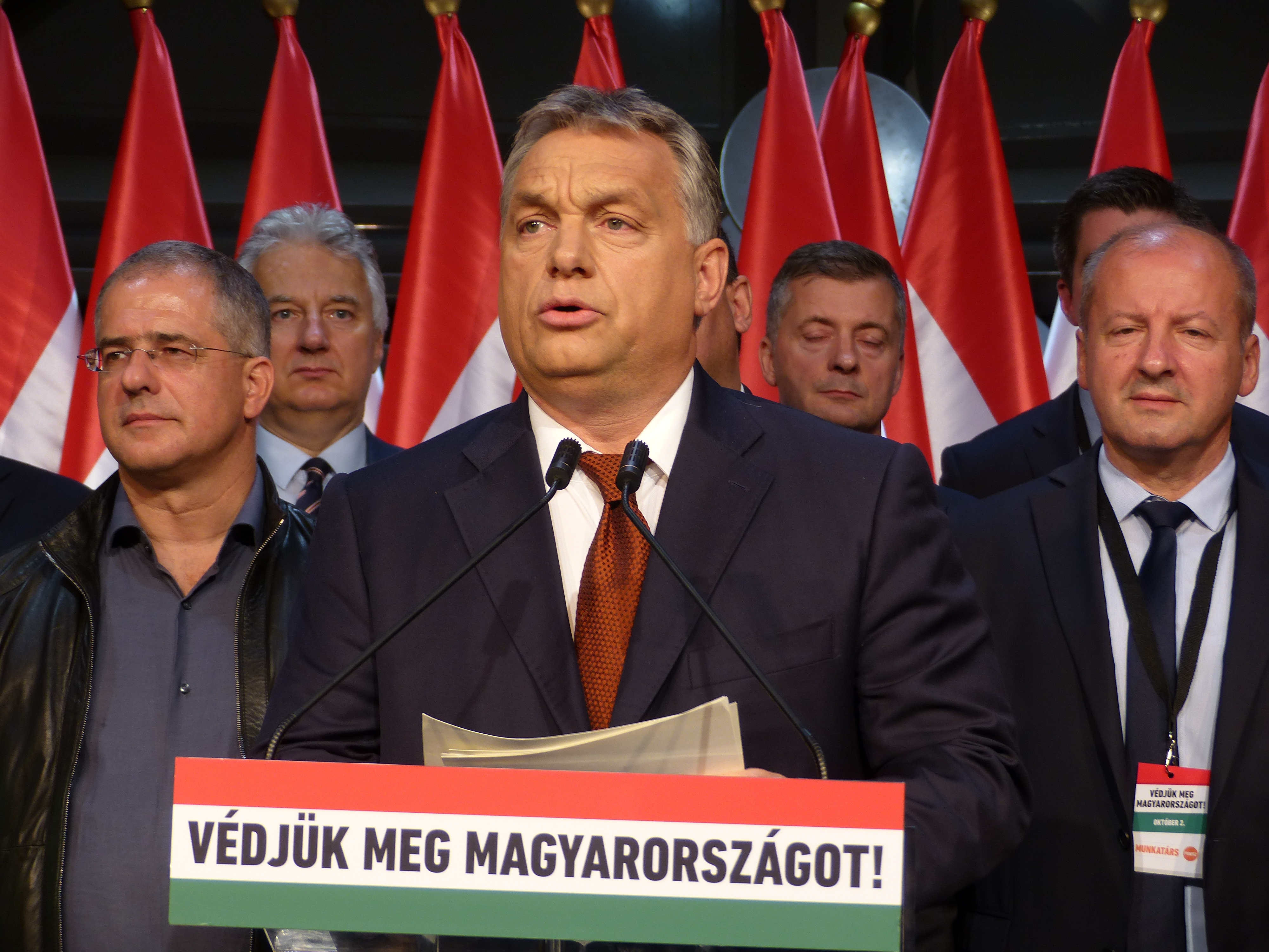 Hungarian referendum on migrant quota. Bálna, Budapest, Hungary. Viktor Orbán speaking about the upshot of the 7th hungarian referendum on this day. On the card: Let us defend Hungary